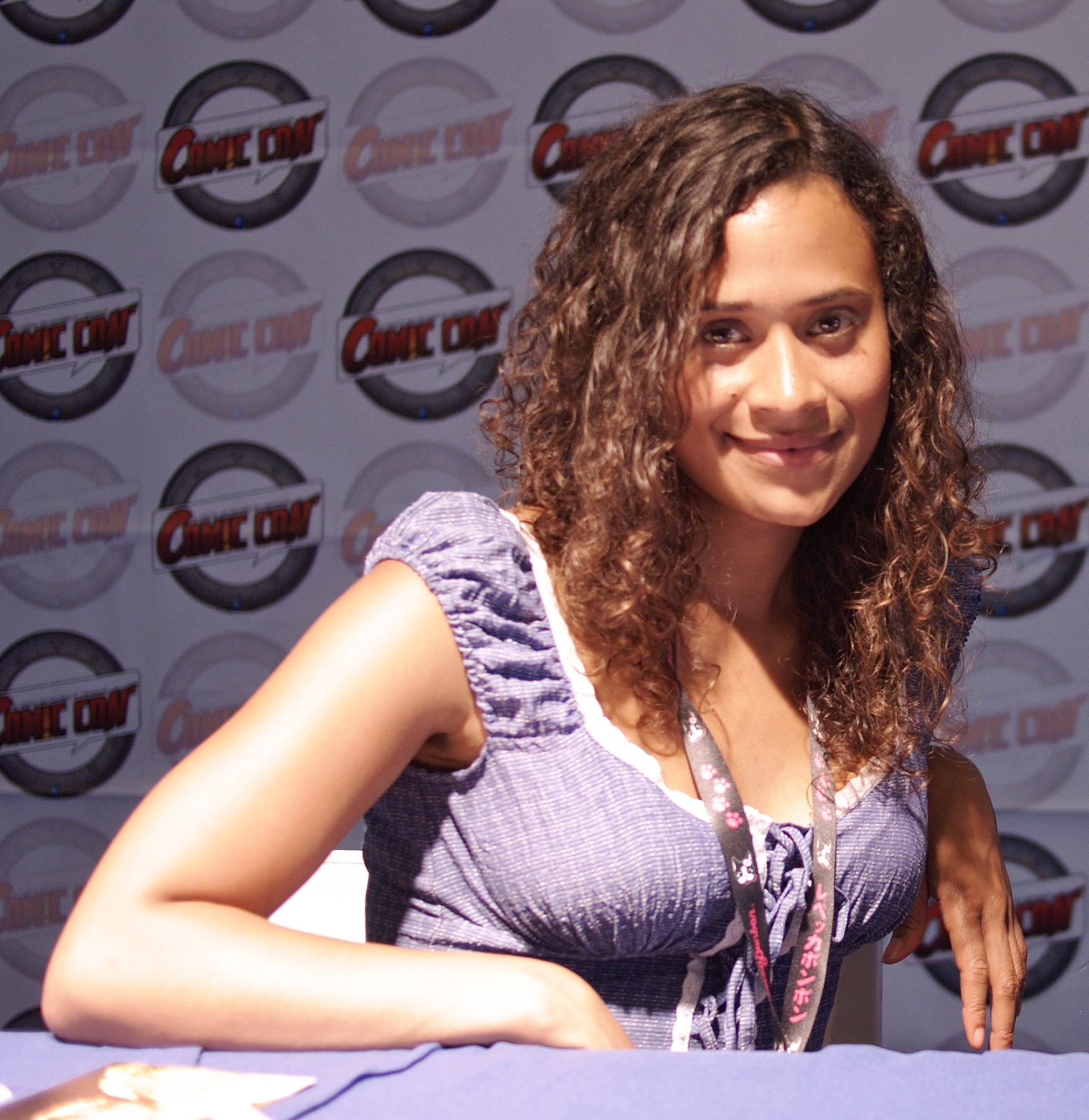 Japan Expo Festival, 11th impact